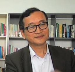 Kem Sokha, left, leader of Human Rights Party sitting alongside with Sam Rainsy, leader of Sam Rainsy Party, in Manila last month. Confirmed to be made by the VOA by the VOA bug in the lower right corner.